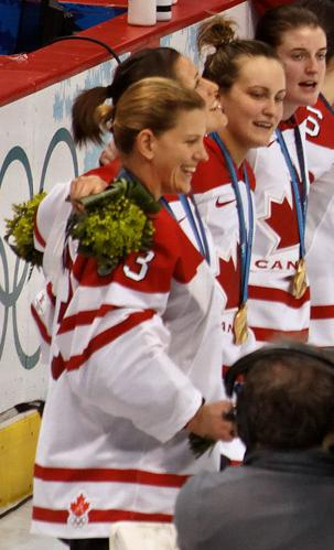 The Canadian women's ice hockey team watch the Canadian flag raised after winning the gold medal against the United States at the 2010 Winter Olympics